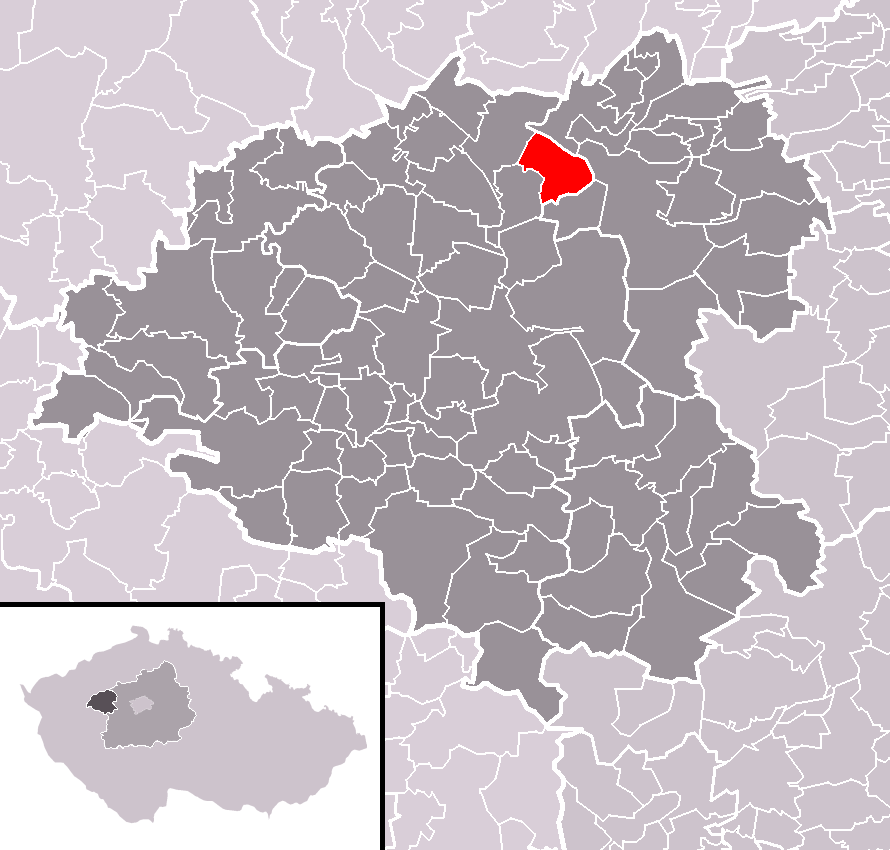 Location of Hředle municipality within Rakovník District and (identical) administrative area of Rakovník as a Municipality with Extended Competence.